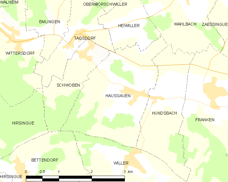 Map of French municipality